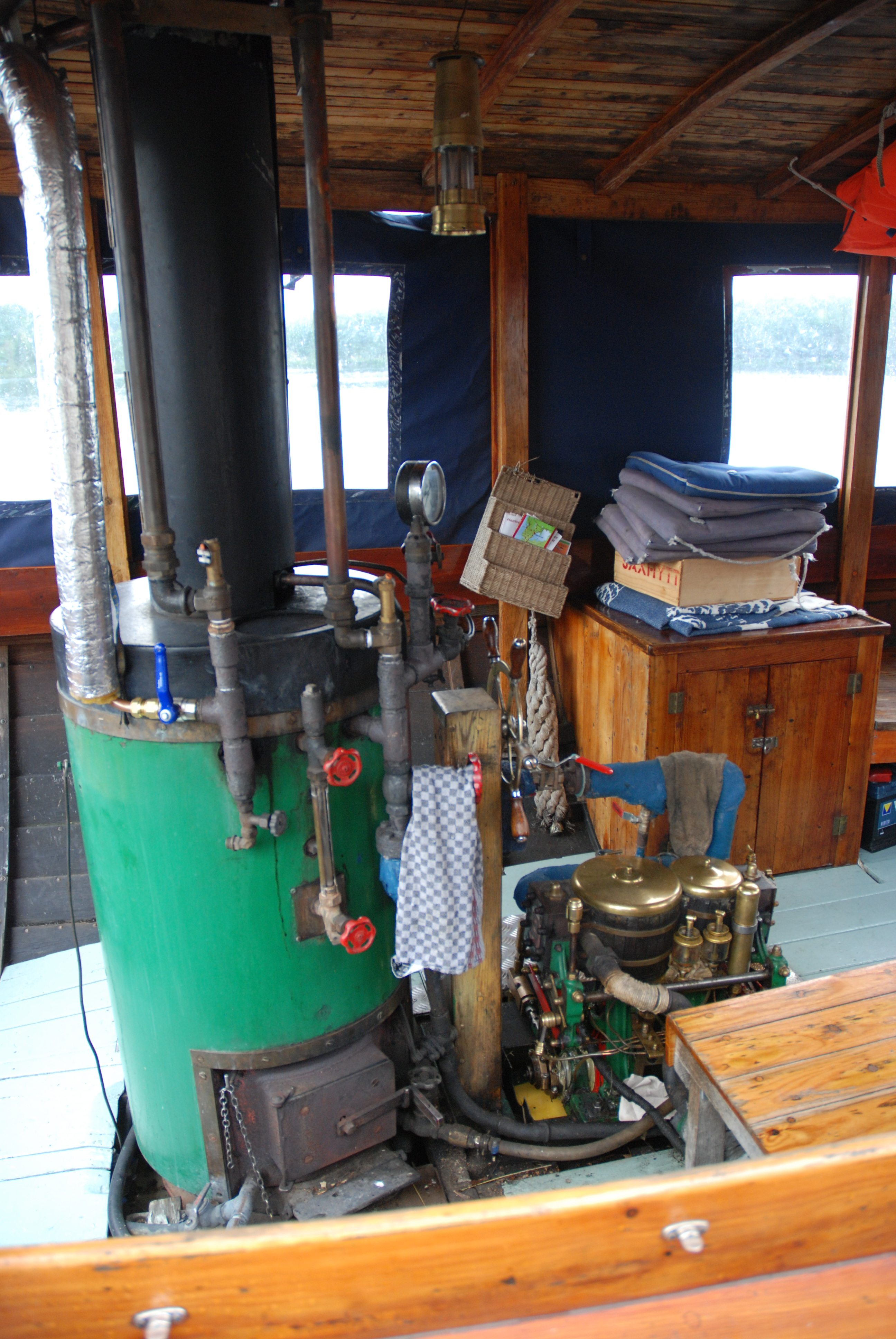 S/S Hamfri, ångmaskinen